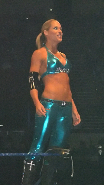 Michelle McCool @ Adelaide, South Australia 'Smackdown/ECW' house show on the 14th of June '08